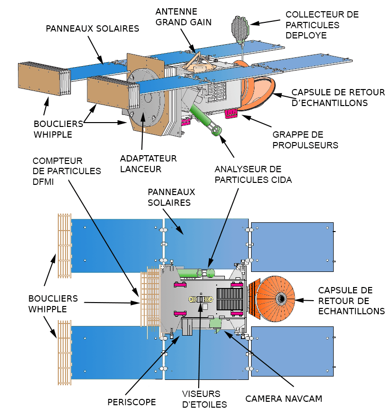 Drawing of probe Stardust with French description.